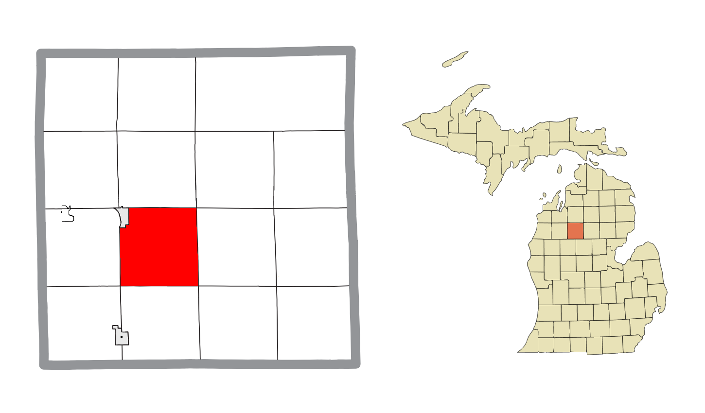 Reeder Township, MI